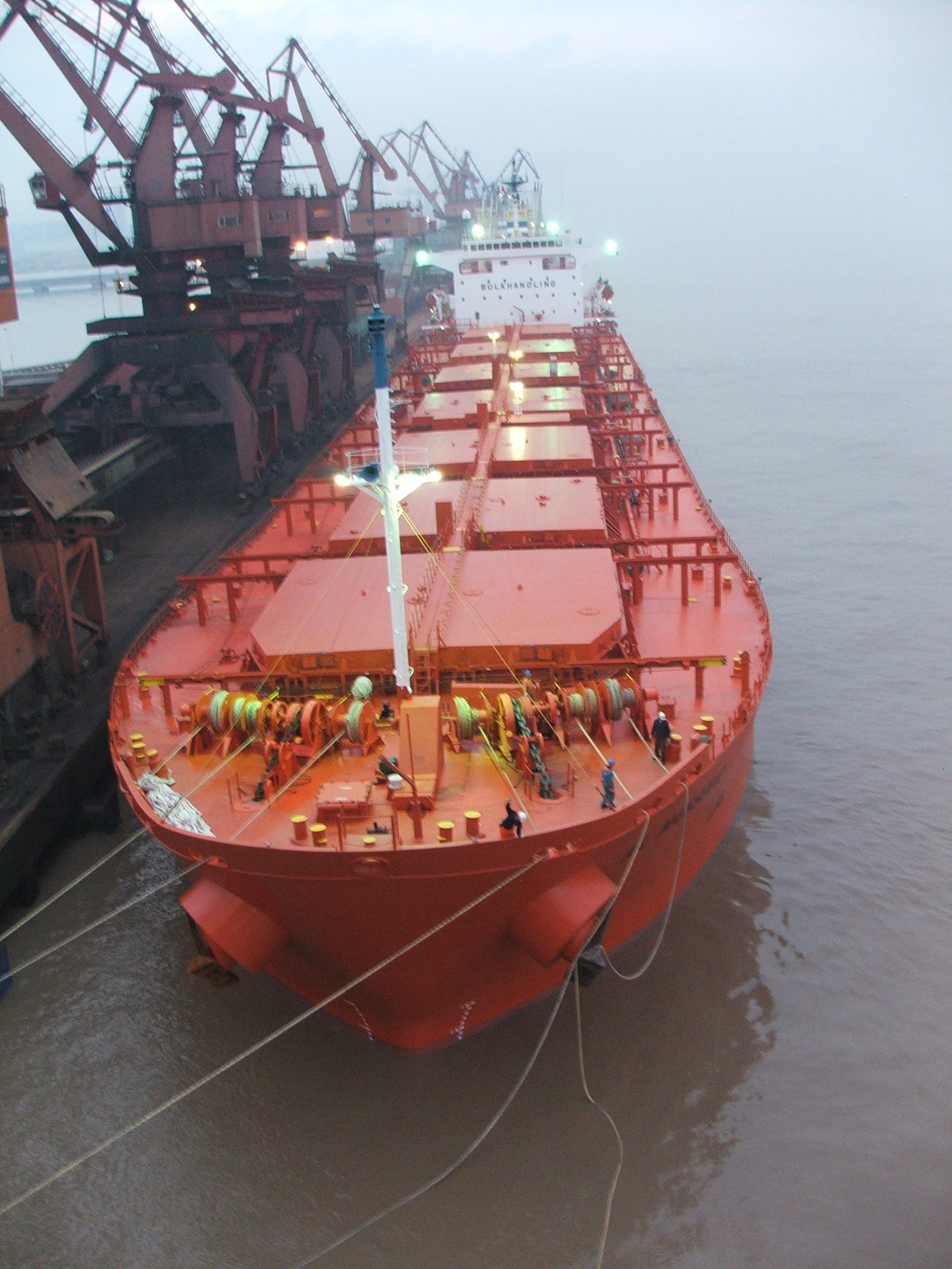 Bulkcarrier Al Mansour IMO Number: 9228057 MMSI Number: 538002401 Callsign: V7IL6 Length: 225 m Beam: 32 m